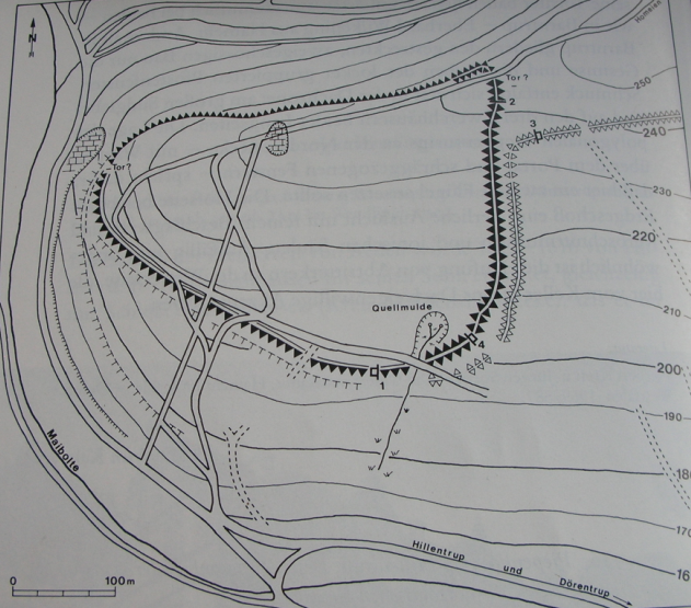 Plan of Iron age village Piepenkopf at Lemgo/Lippe